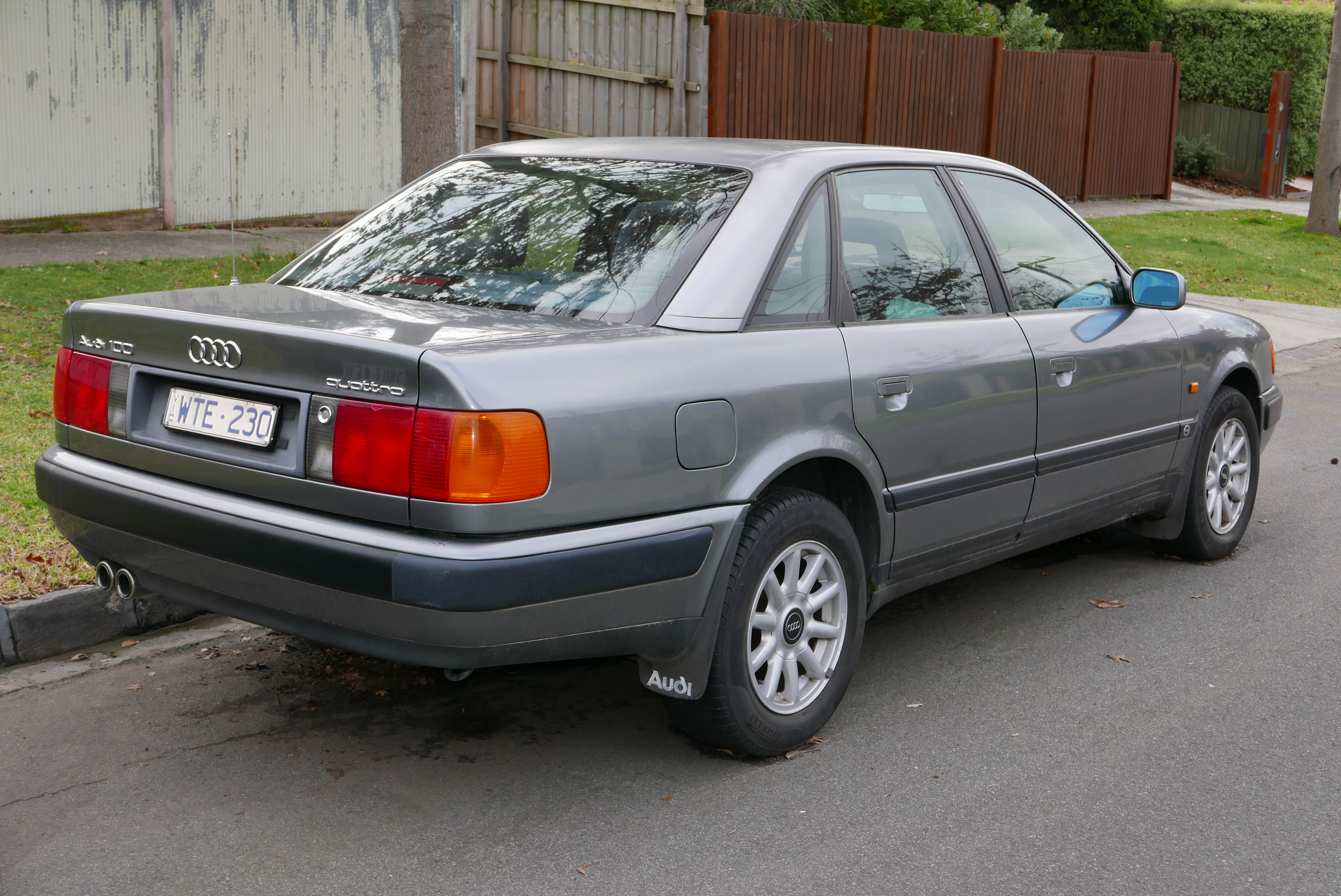 1992 Audi 100 (4A) 2.8 quattro sedan. Photographed in Balwyn, Victoria, Australia. Vehicle registration enquiry results Jurisdiction Victoria Registration WTE230 Chassis code WAUZZZ4AZNN058059 Engine code AAH077900 Compliance date 1992-02 Year of manufacture 1992